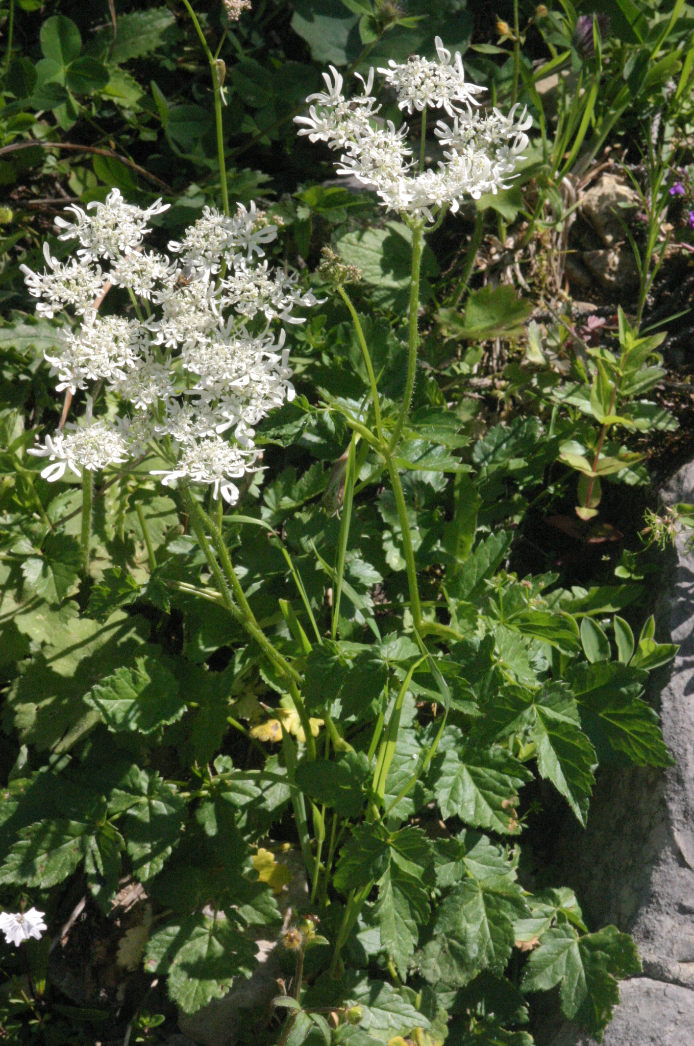 Heracleum austriacum subsp. austriacum